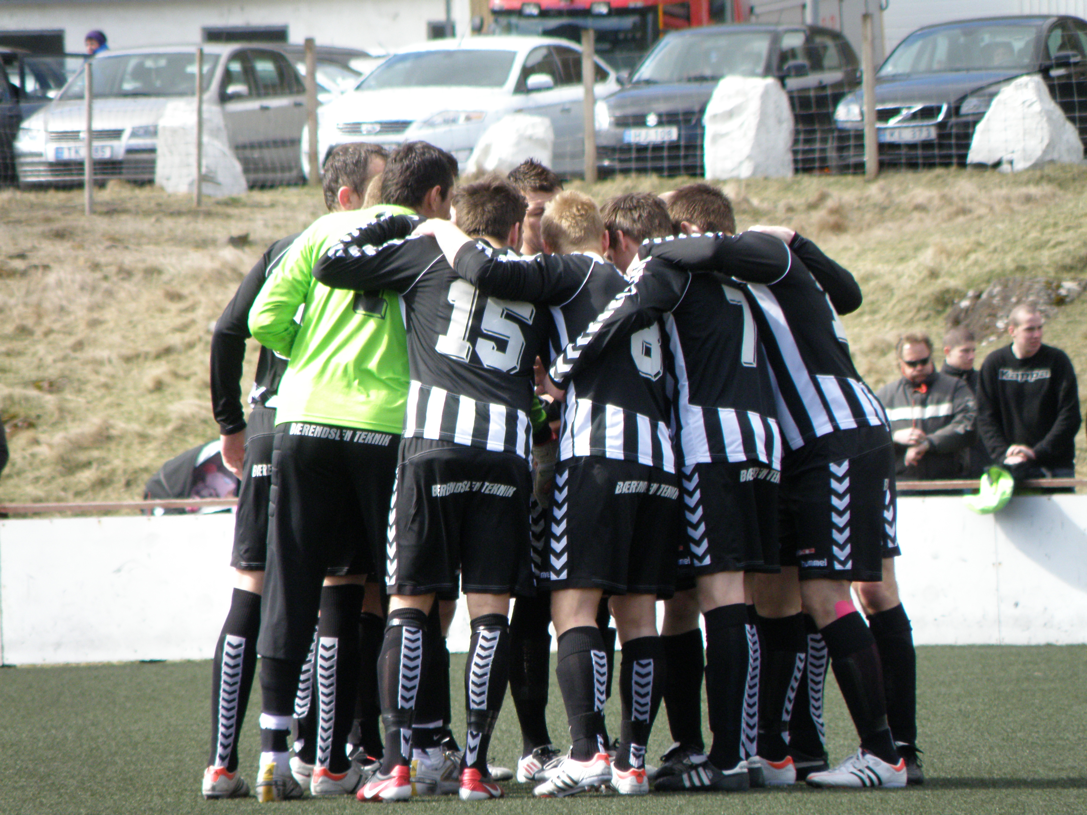 TB Tvøroyri is a football club from Tvøroyri, Faroe Islands, it is the oldest football club of the Faroe Islands, founded in 1892. This photo was taken just before a match against the neighbours from Vágur and Sumba, FC Suðuroy.